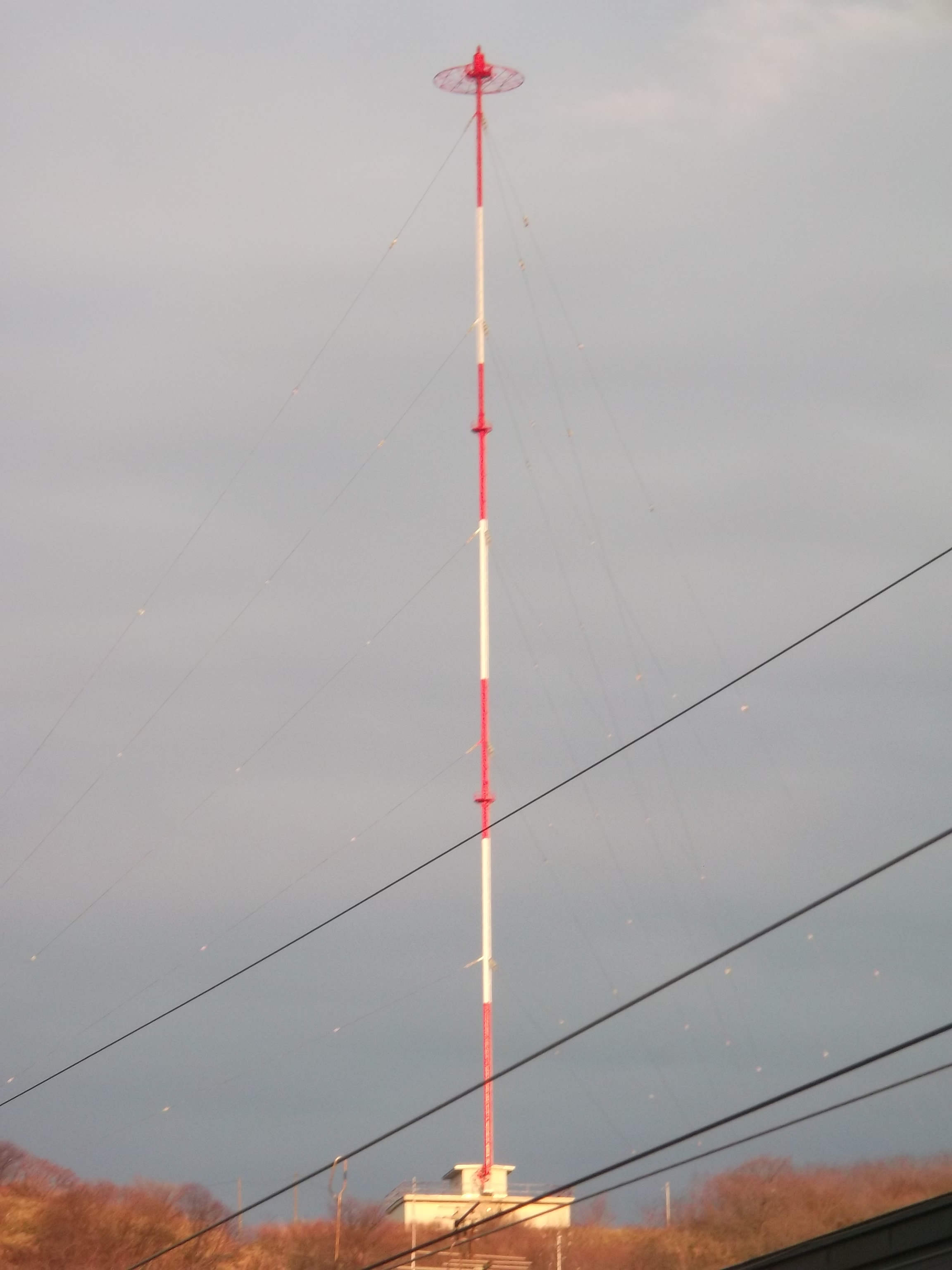 NHK Muroran Radio Transmitting Station in Muroran, Hokkaido NHK Radio 1:JOIQ 945kHz 3kW NHK Radio 2:JOIZ 1125kHz 1kW